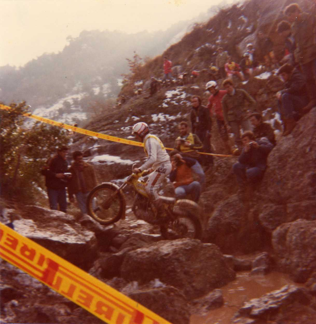 Toni Gorgot riding his yellow OSSA TR 80 at XV "Trial de Sant Llorenç" in Mura (Catalonia) on February 22, 1981. It was the first race of the Trial World Championship. He finished 4th.